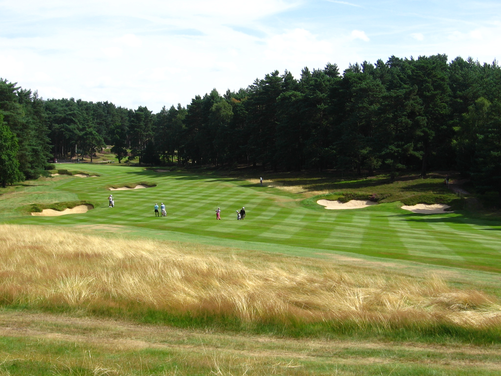 Fairway of the 10th hole as seen towards the green. 2008 WBO at Sunningdale, practice round.